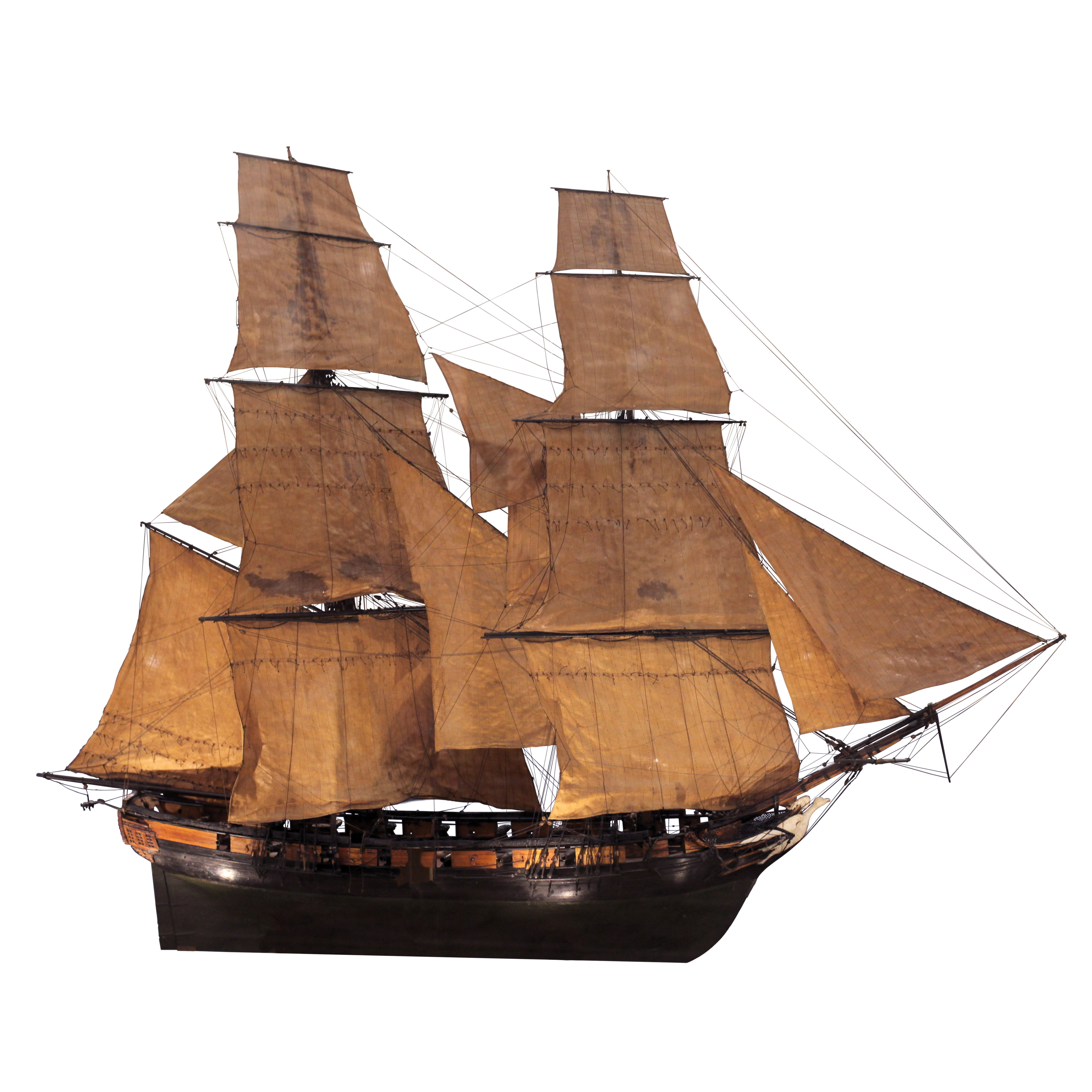 This is a photomontage of two images, made to remove a display case pillar from the centre of the model. The rigging and details are less than perfectly accurate in this zone.